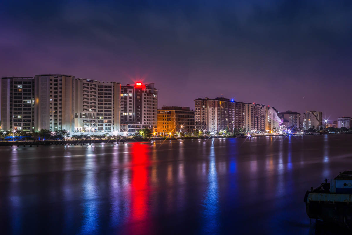 Kochi Skyline at Night